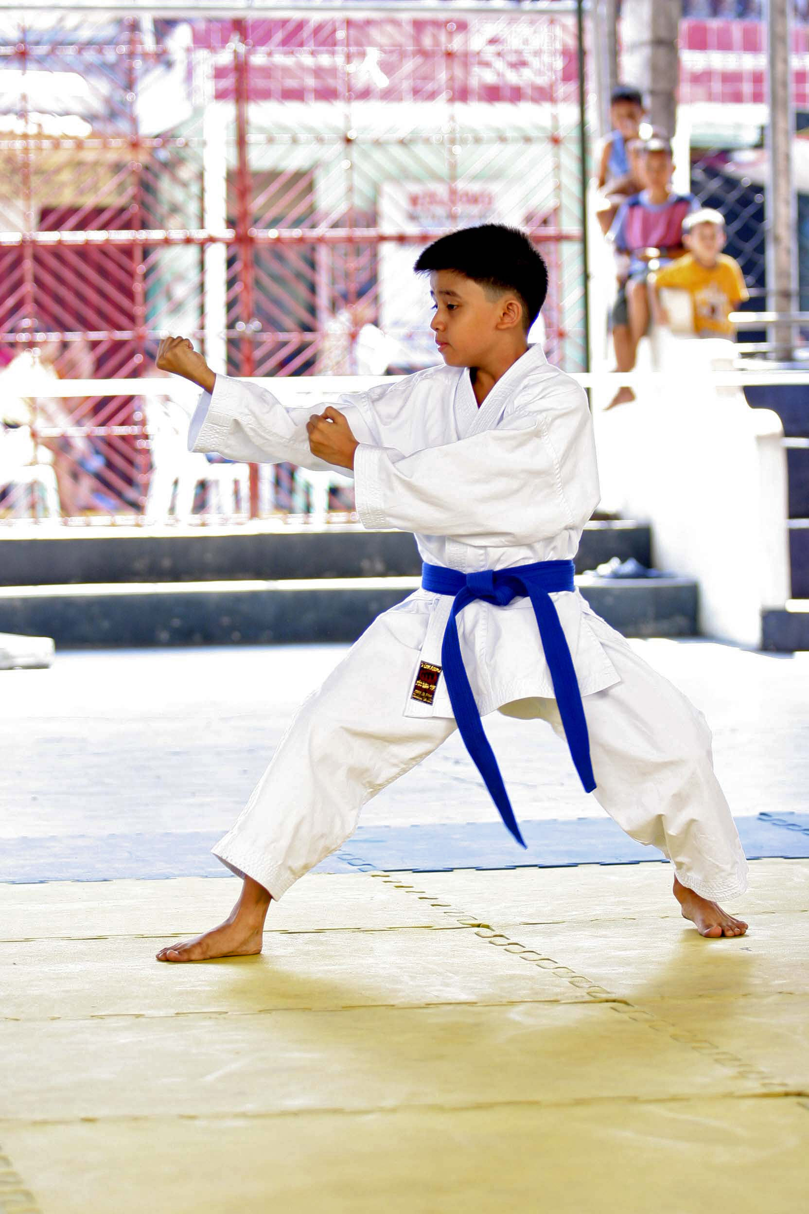 Youth performing Kūsankū-shō (Karate kata).